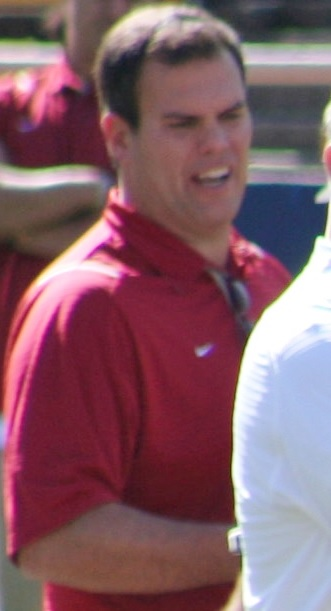 Washington State head coach Paul Wulff in 2009